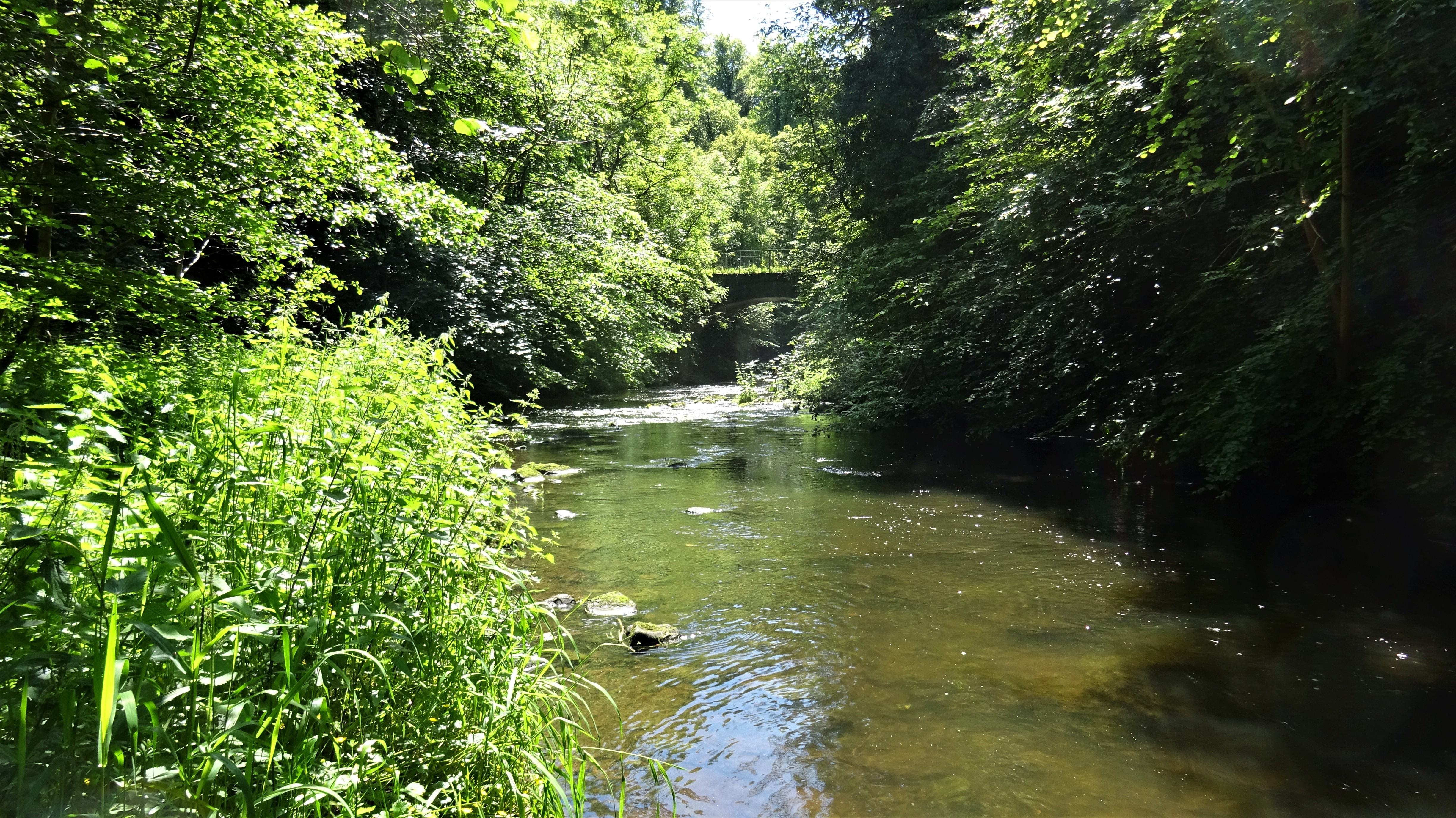 The Calder Bridge, South Calder Water, Lanarkshire, Scotland. Taken from the site of Coltness Mill.